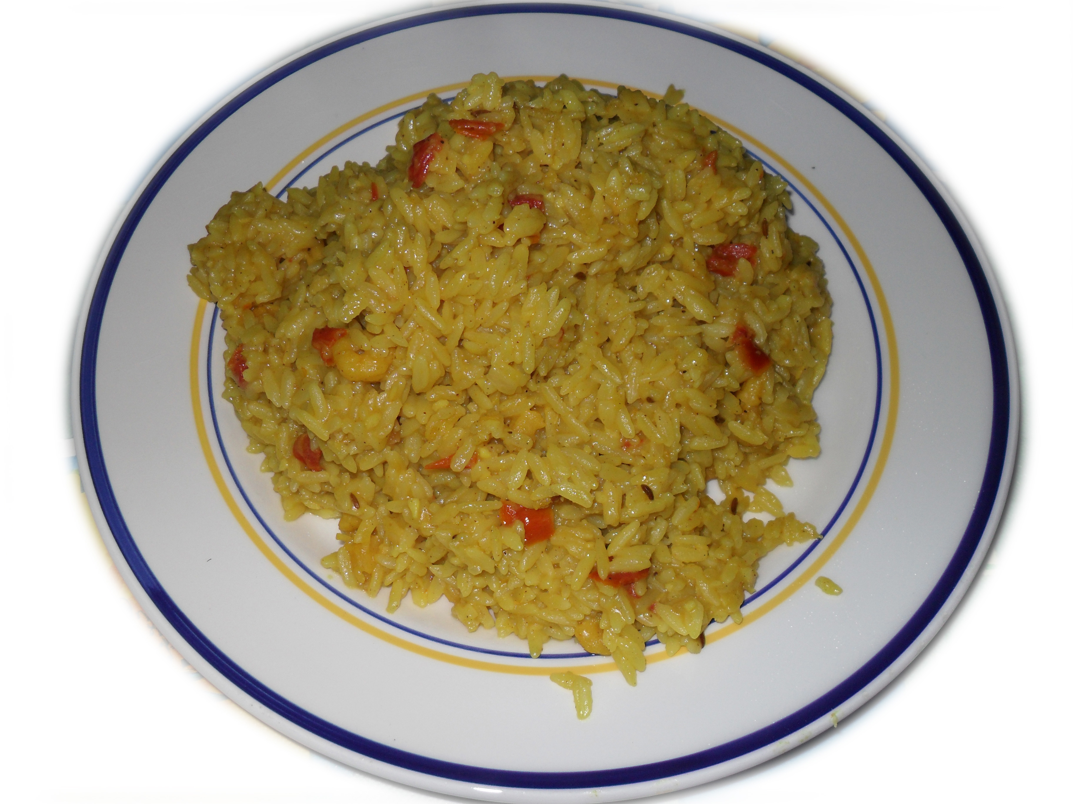 Indian spicy rice dish cooked with shrimp and curry (Prawn Biryani)